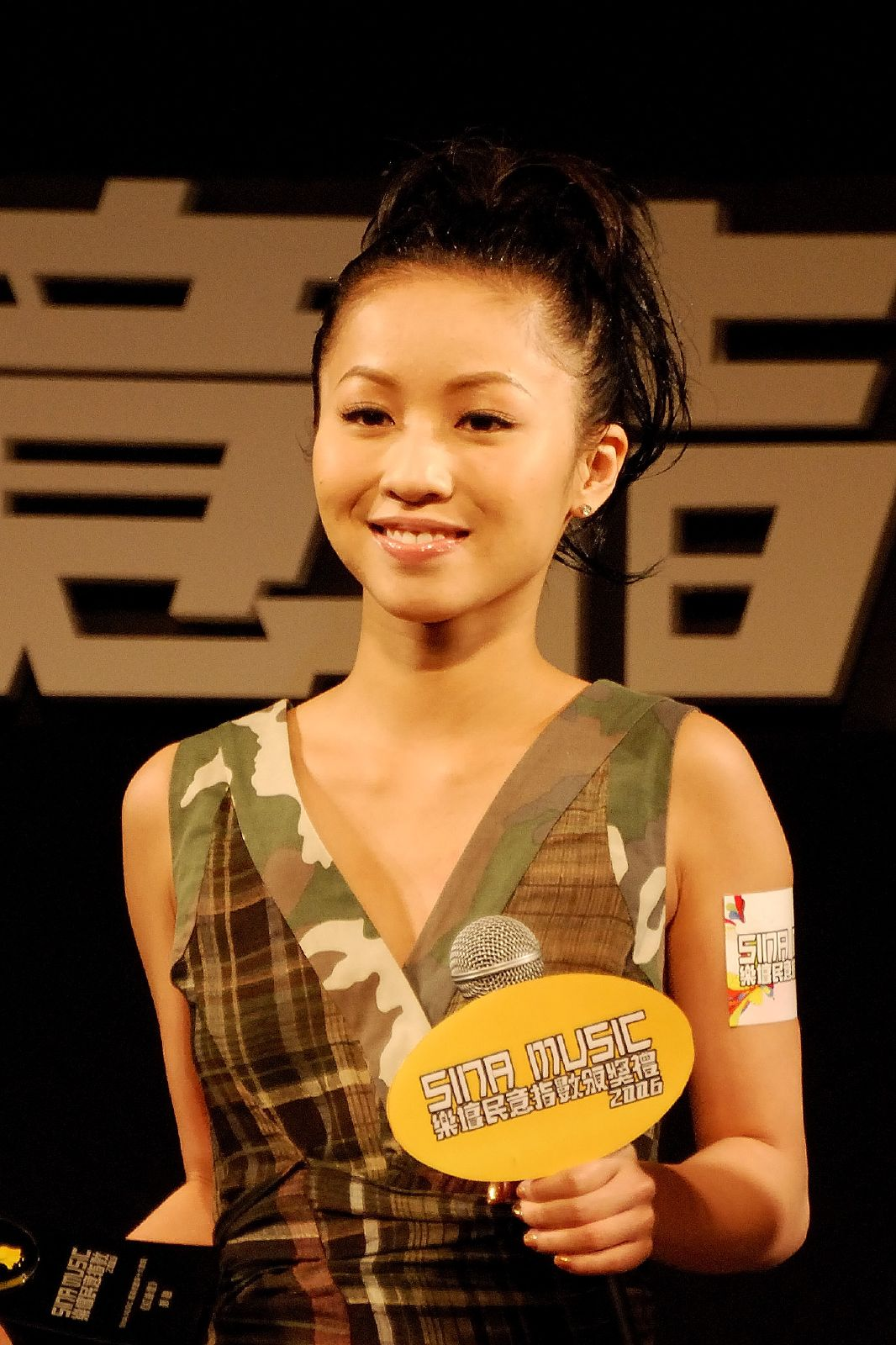 Stephanie Cheng at SINA Music樂壇民意指數頒獎禮 2006 (hosted on 29 January 2007)